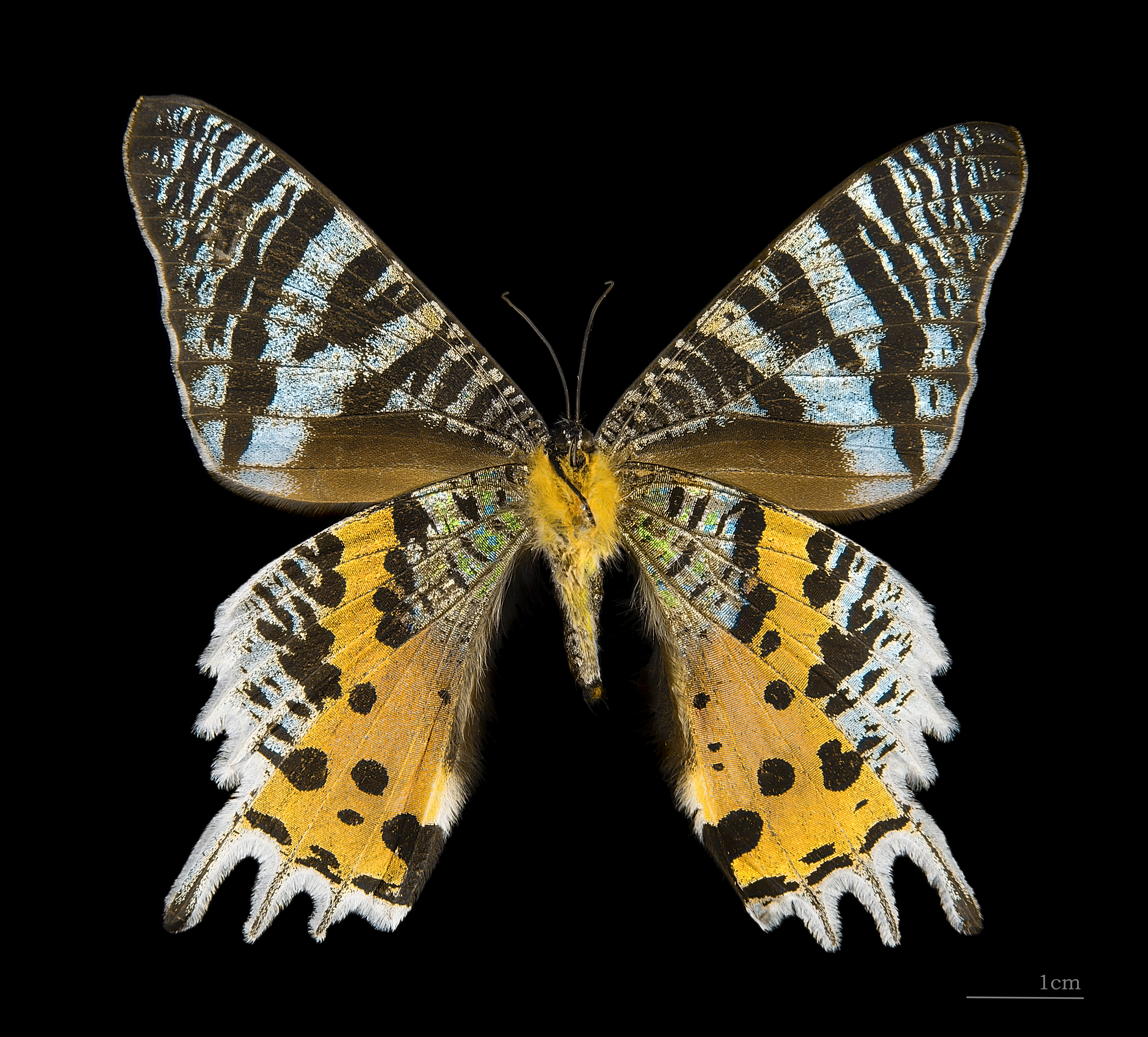 Madagascan sunset moth - △ Ventral side